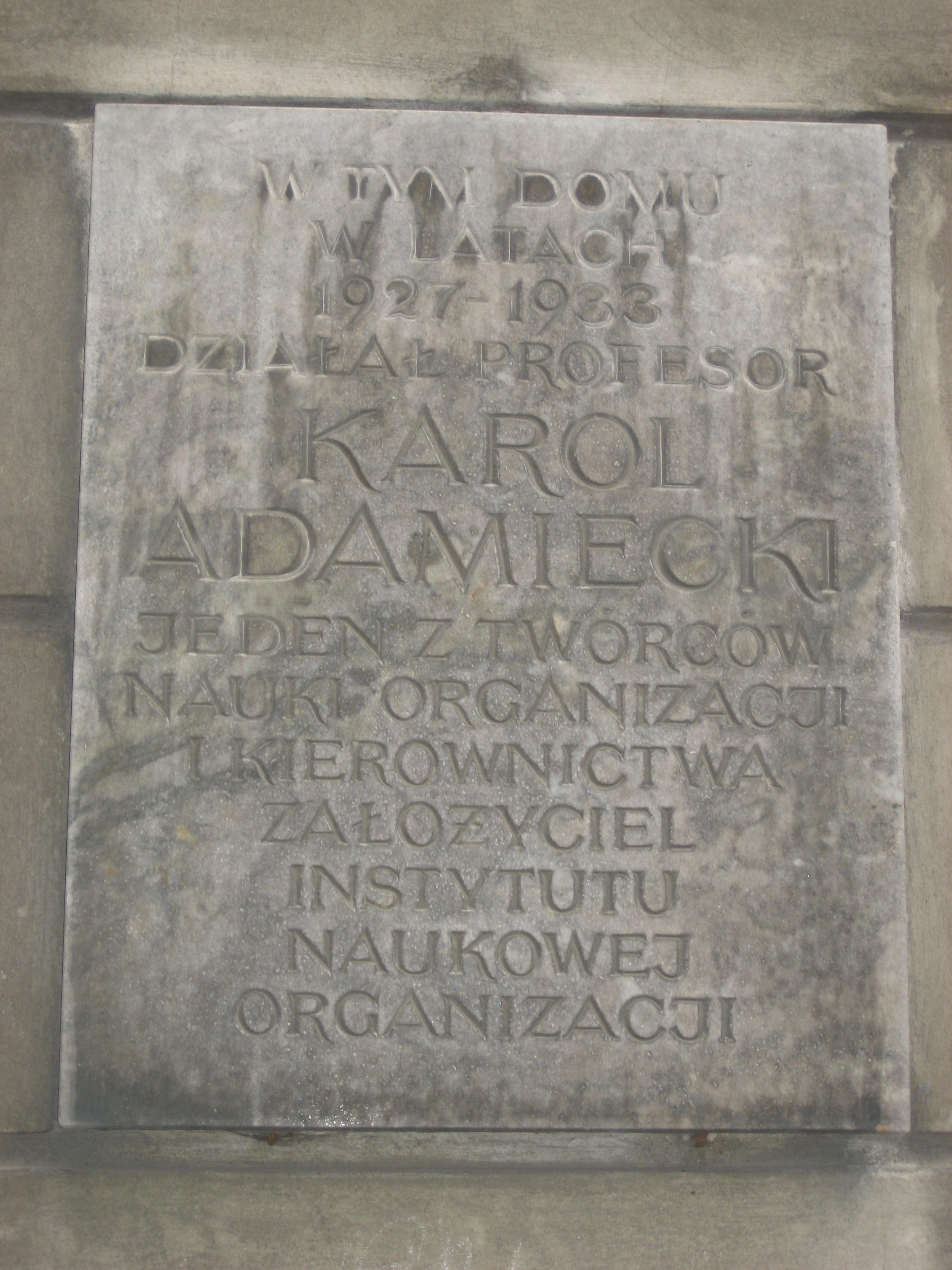 Plaque at ulica Mokotowska 51/53, Warsaw, Poland, commemorating the activities there, in 1927-33, of Professor Karol Adamiecki, one of the founders of Scientific Management.